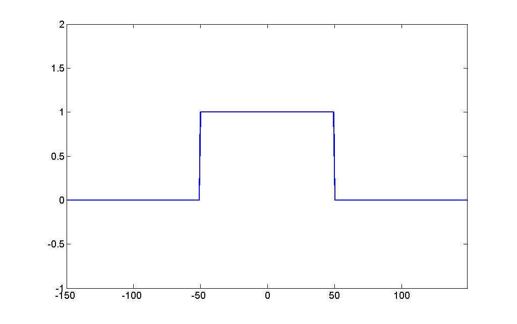 square wave